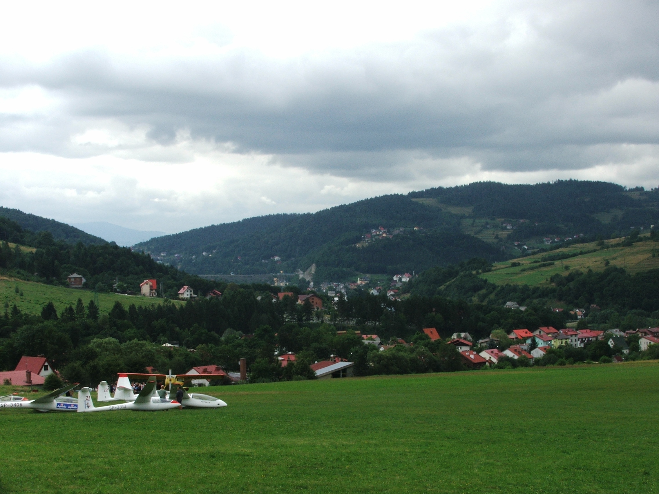 Żar Airport